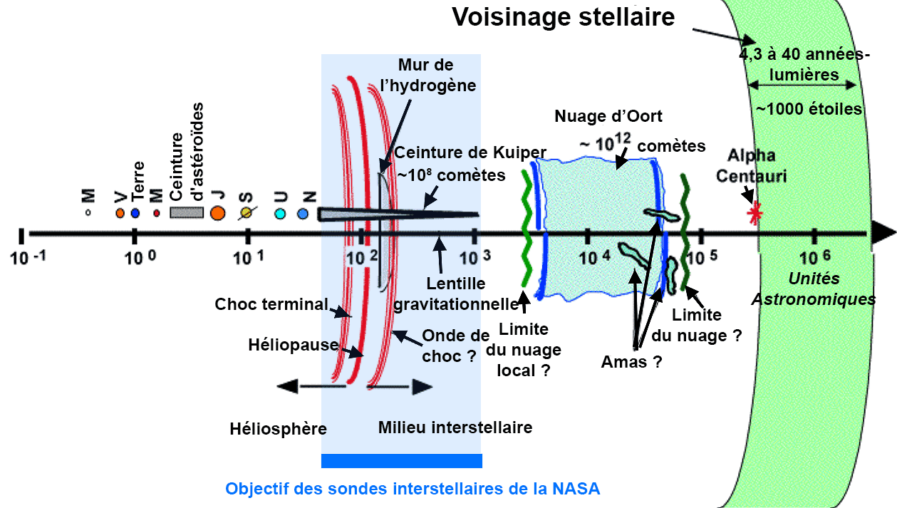 The local interstellar neighborhood, shown on a logarithmic scale from the Sun to 1 million AU.